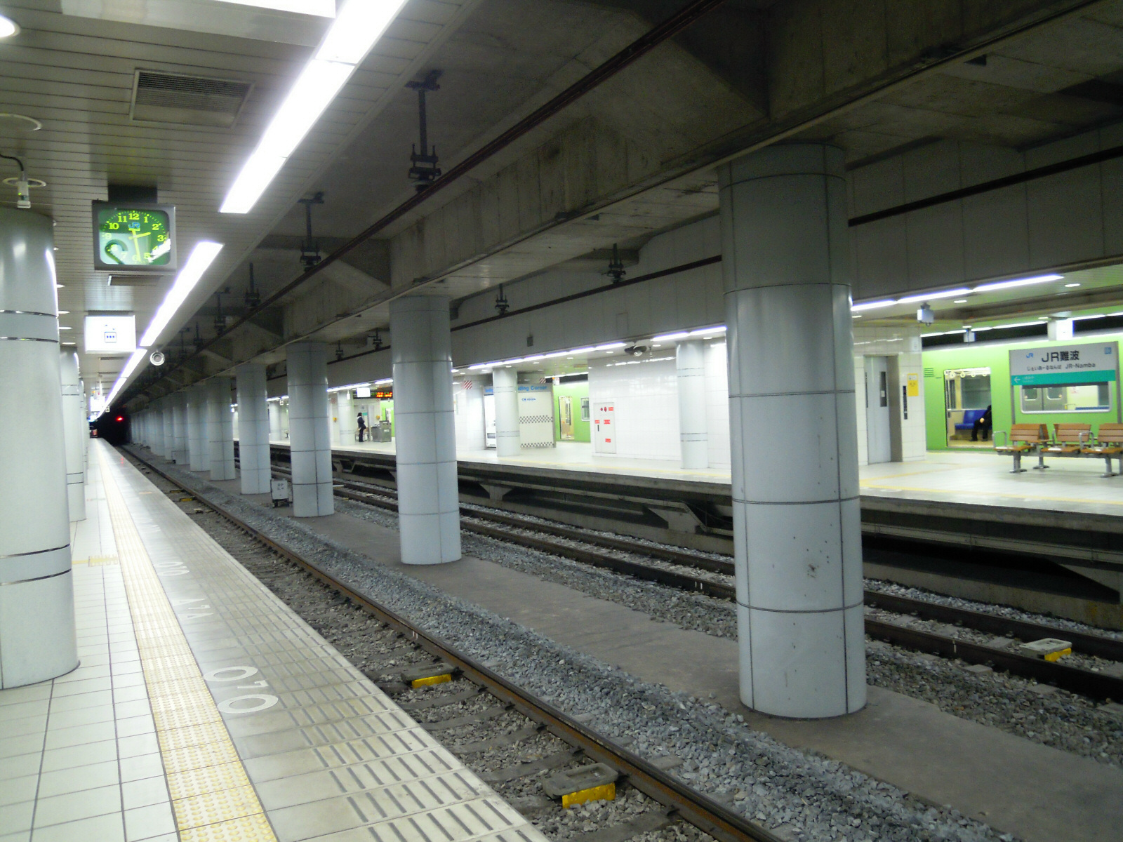 JR Nanba station platform